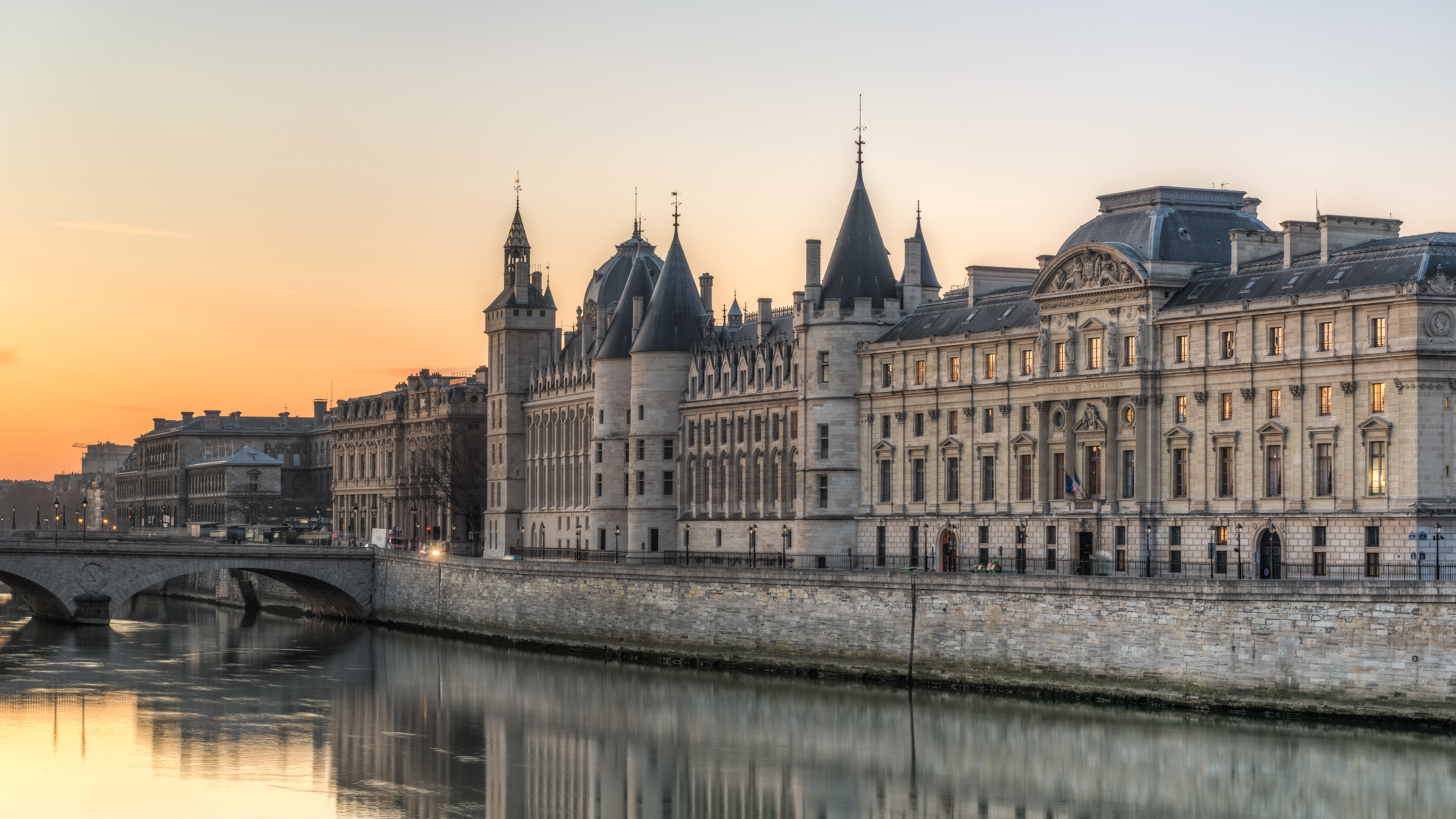 The Quai de l'Horloge in the 1st Arrondissement of Paris. This image shows the Hôtel-Dieu Hospital, the Tribunal de Commerce, the Conciergerie and the Court of Cassation of France This is a retouched picture, which means that it has been digitally altered from its original version. Modifications: Five-image HDR merged in Photomatix Pro.